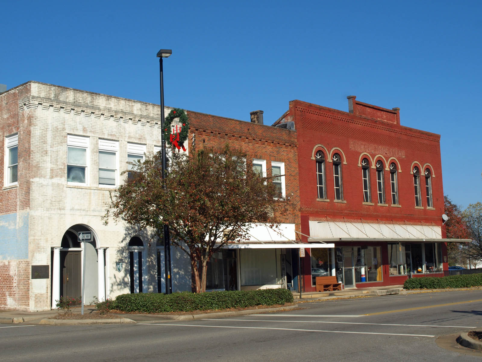 601-611 East Commerce Street in Greenville, Alabama, part of the East Commerce Street Historic District